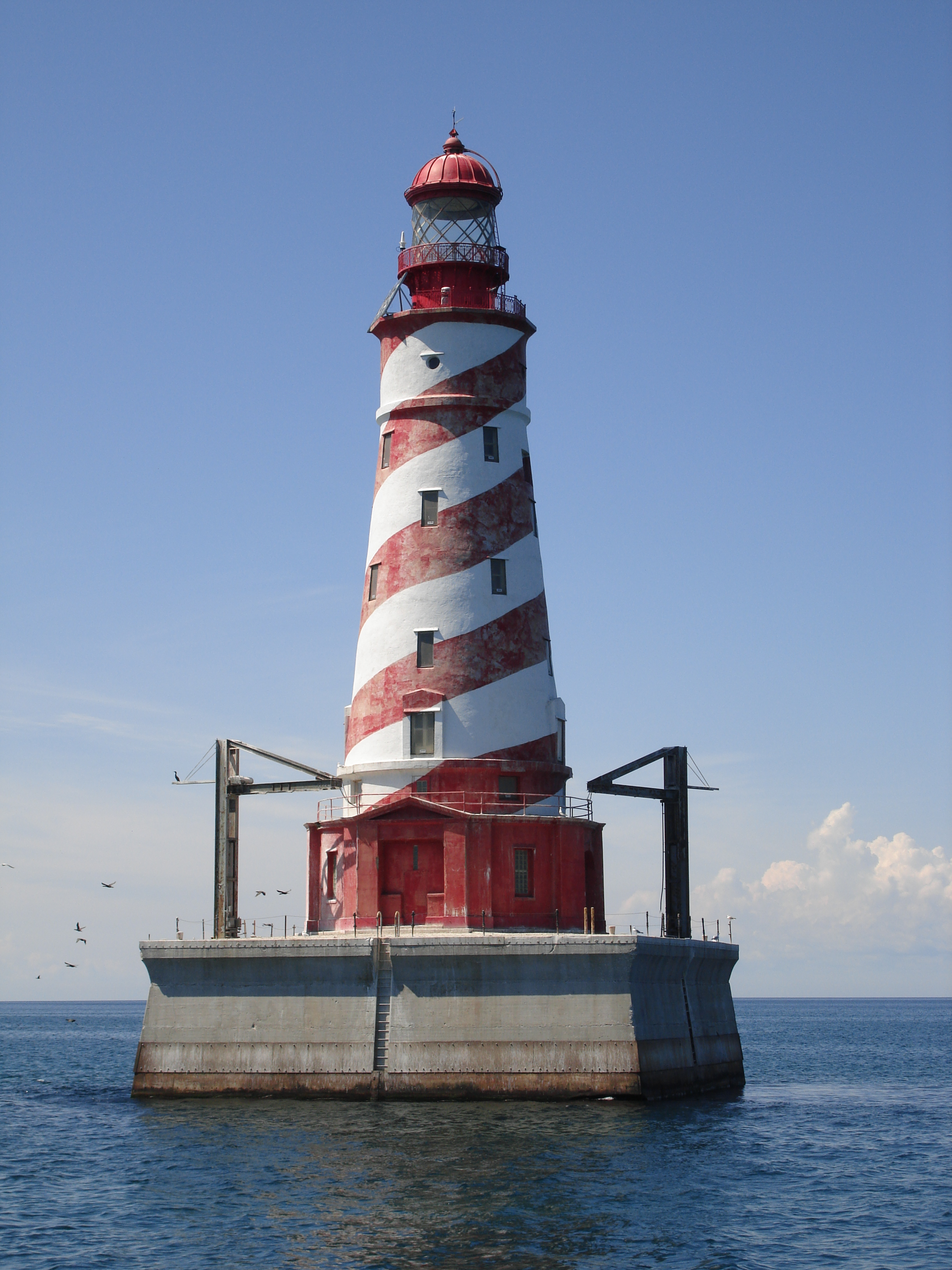 White Shoal Light on Lake Michigan in August, 2008.